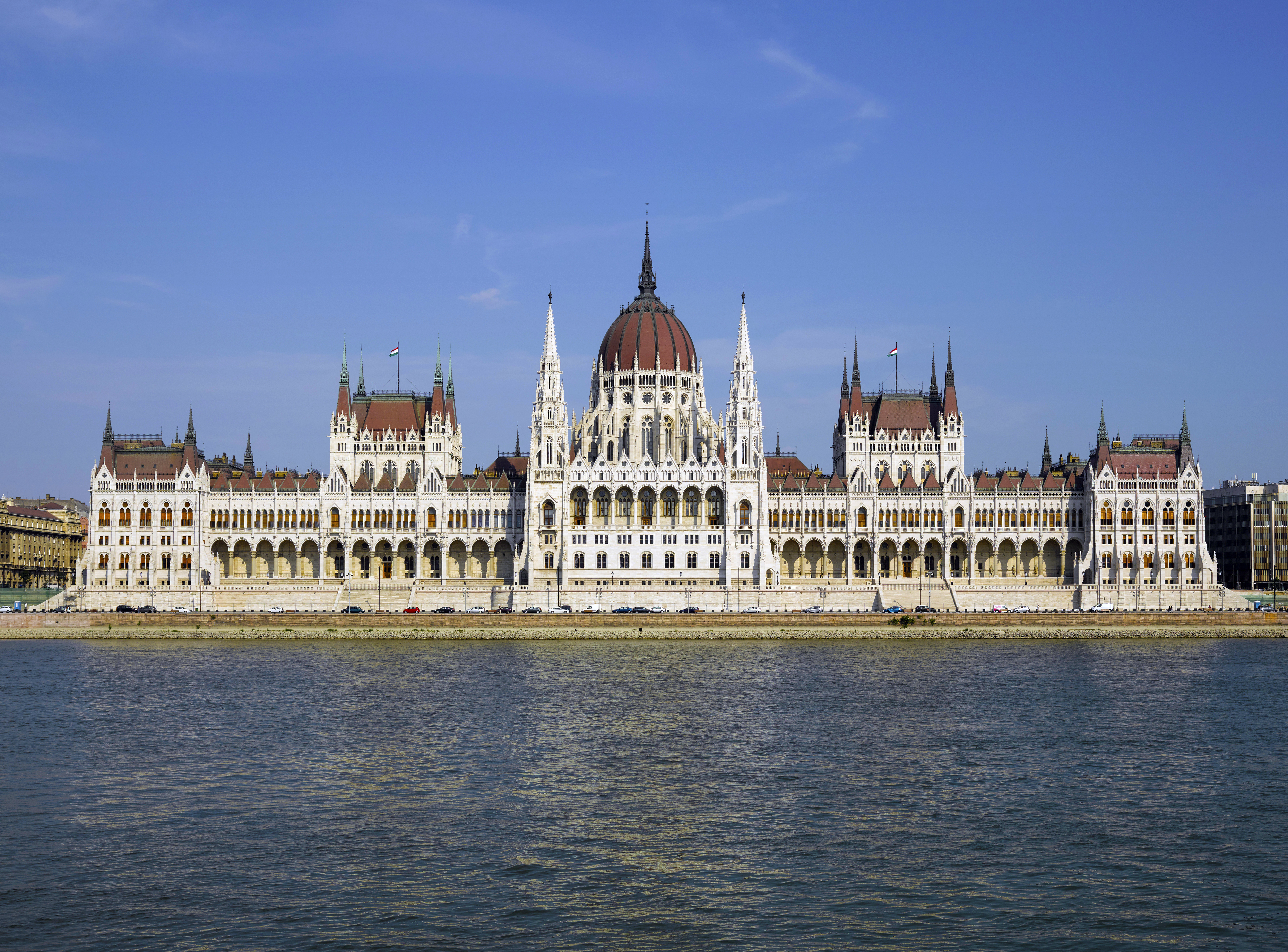 Hungarian Parliament Building, Budapest, Hungary, 2015.